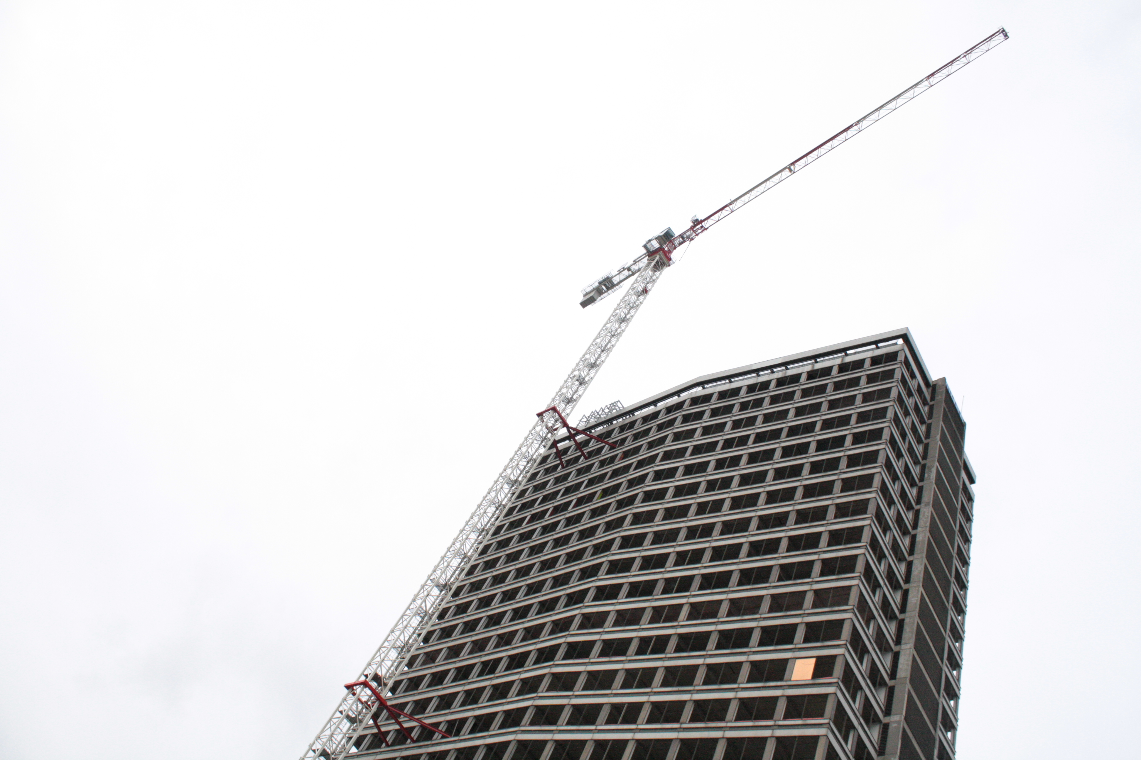 The Antwerp Tower during renovation, picture taken on Oktober 23d 2017, from the De Keyserlei in Antwerp, postalcode 2018. This photo of immovable heritage has been taken in the Flemish Region